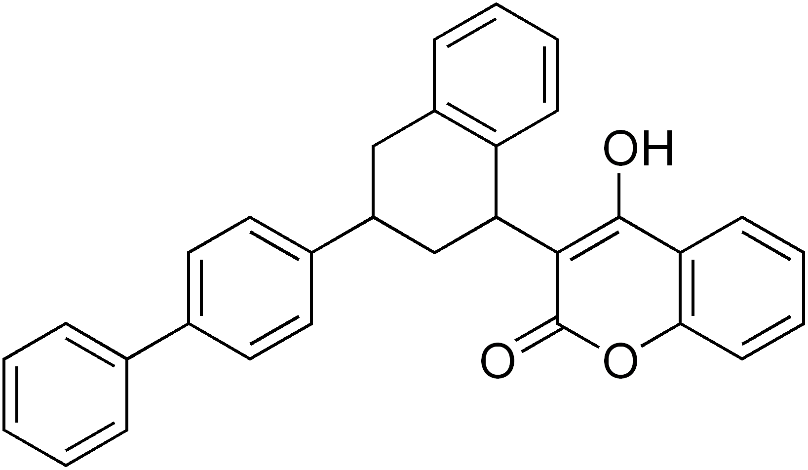 chemical structure of difenacoum